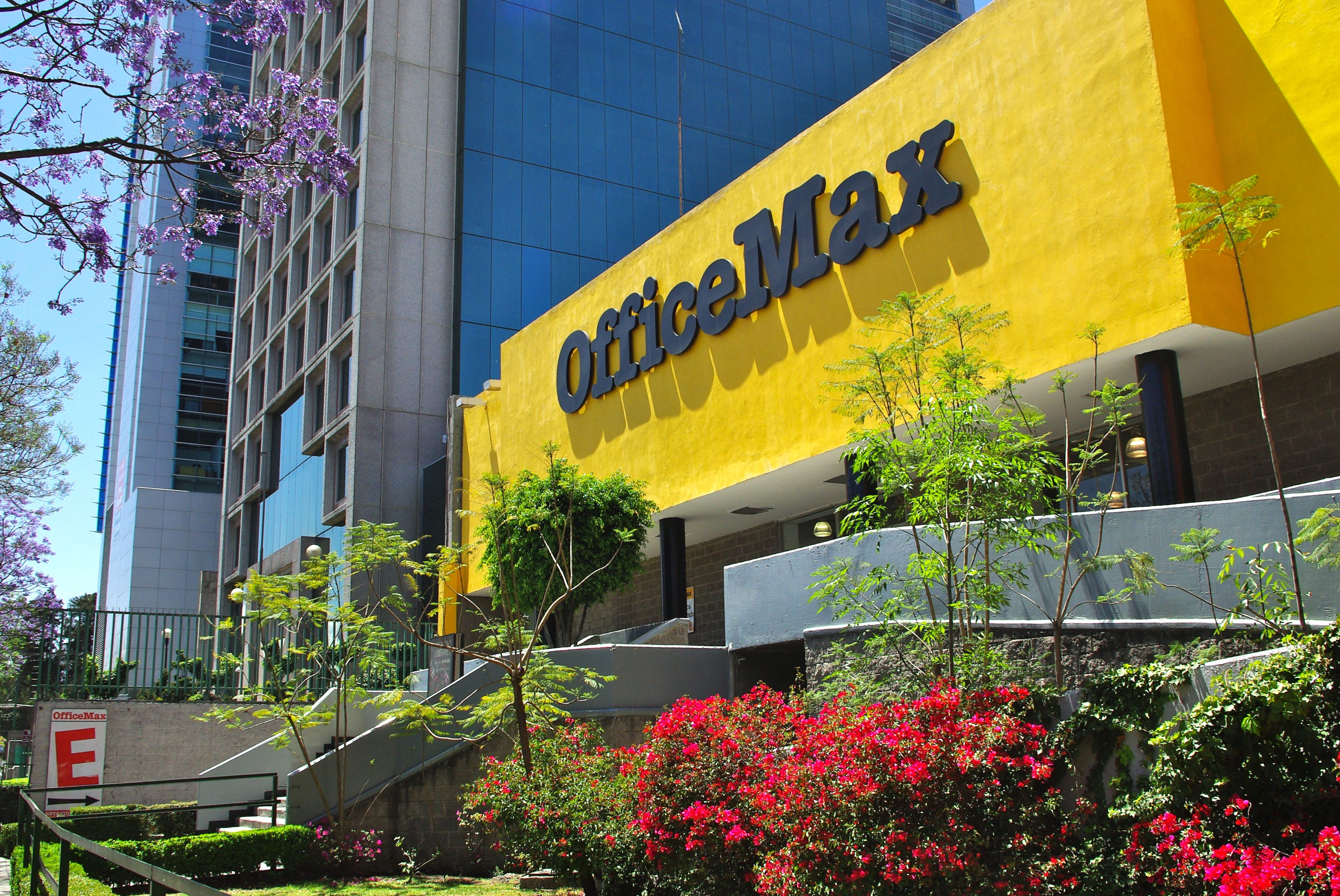 Office Max building in Mexico City Other information Photo by George Garrigues